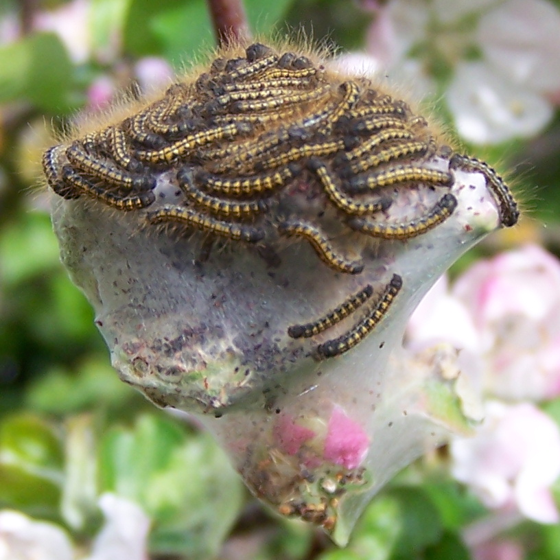 Caterpillars on an apple tree